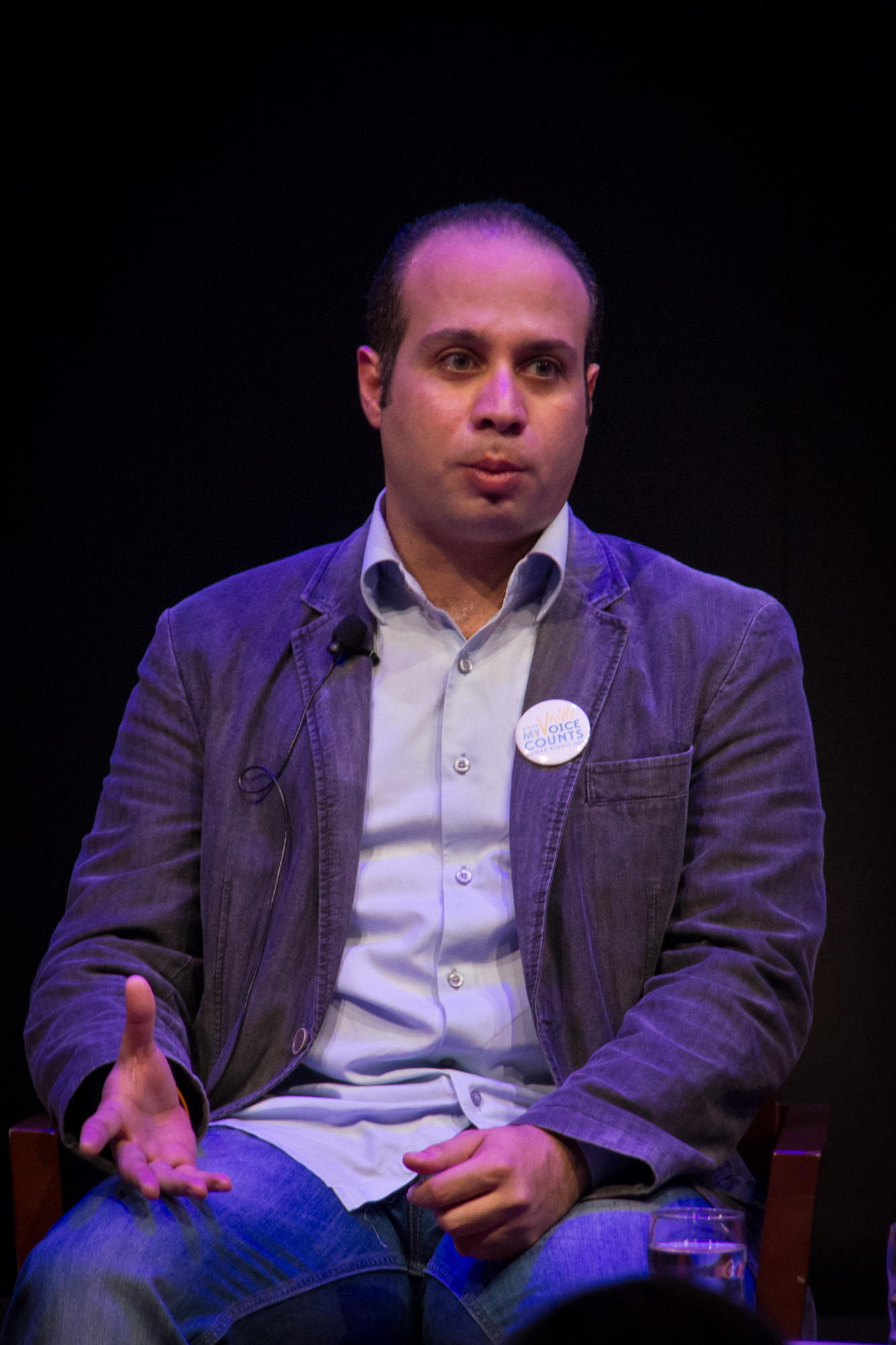 Official launch of United Nations Human Rights Day at the Ford Foundation, New York, December 10, 2012. Photo: UN / John Gillespie